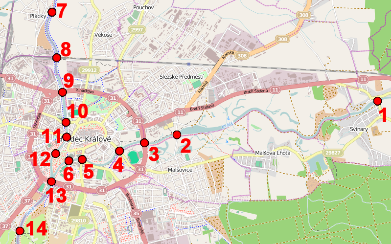 Location of bridges in Hradec Králové.